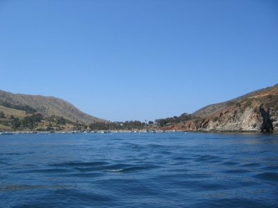 Two Harbors, CA